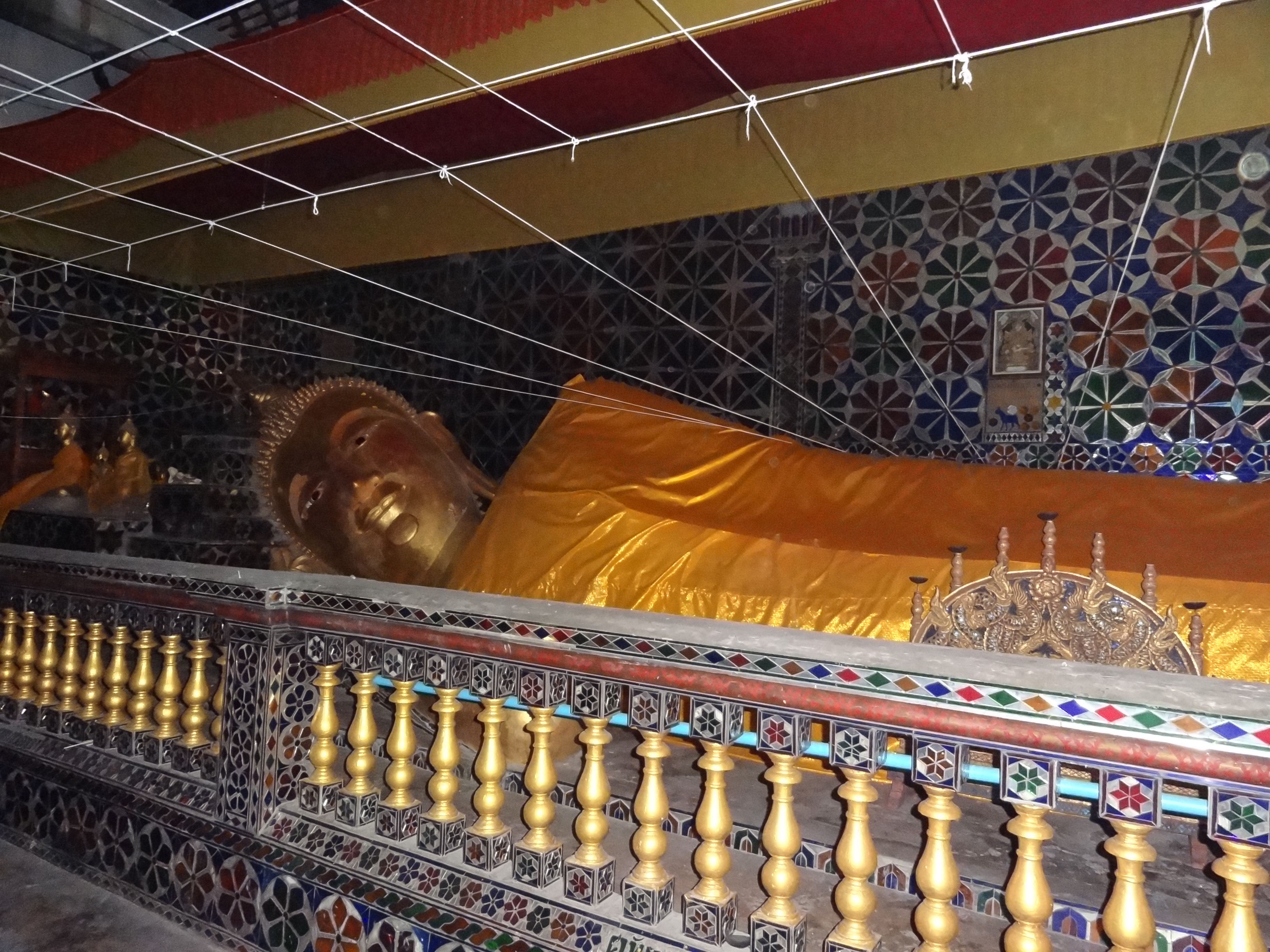 Reclining Buddha of Wat Phra Non Khom Muang, Mae Rim district, Chiang Mai, northern Thailand